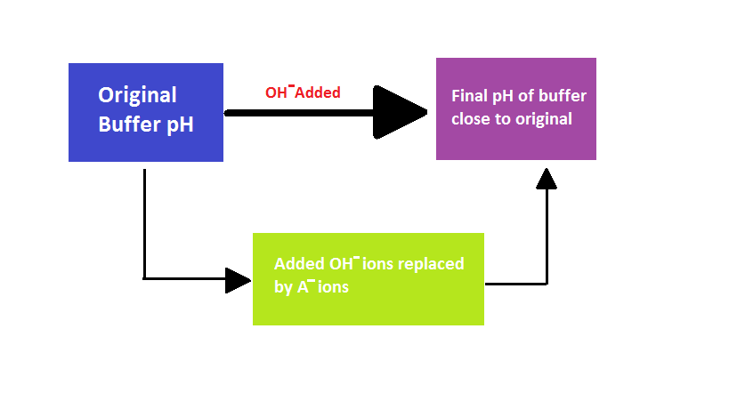 How Does a Buffer Work?